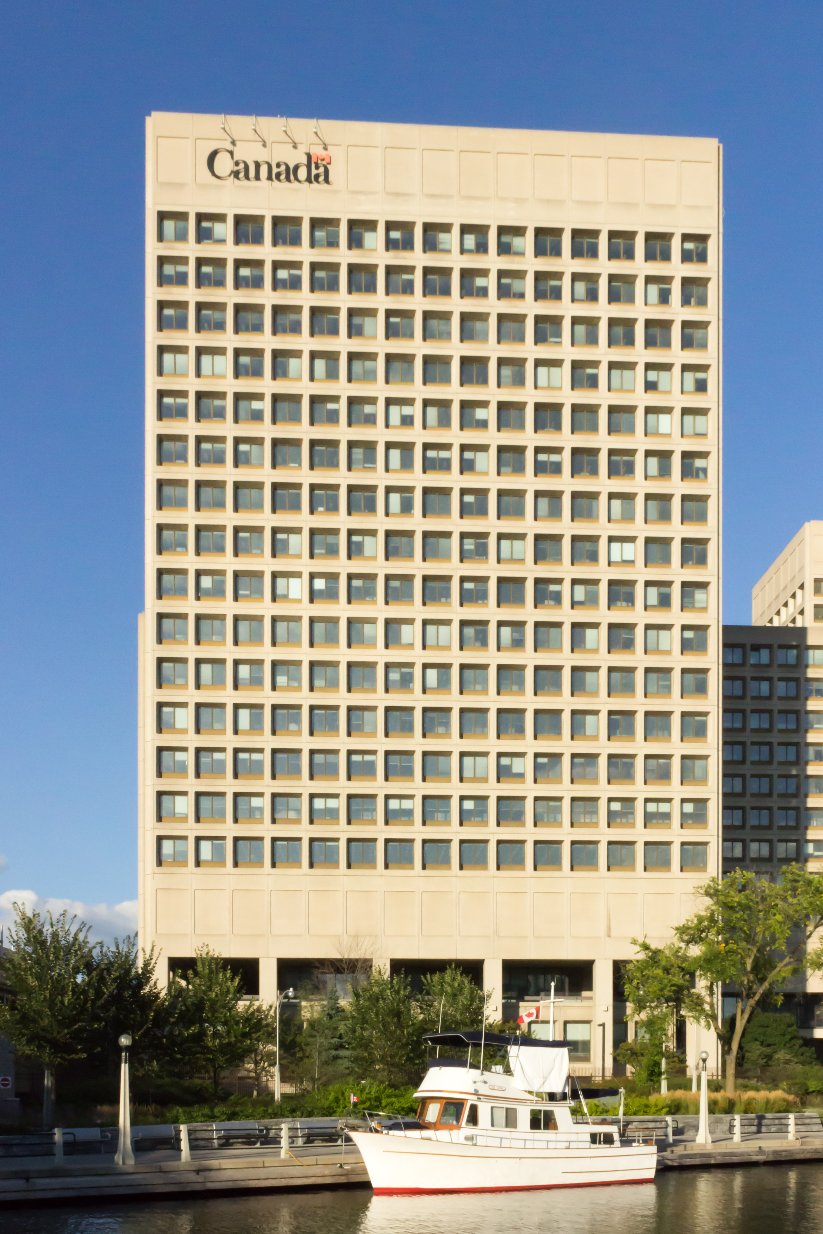 The main tower of the Major-General George R Pearkes Building, as seen from Rideau Canal